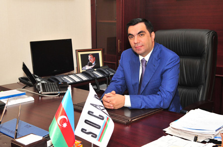 Rector of the BHOS, Elmar Gasımov